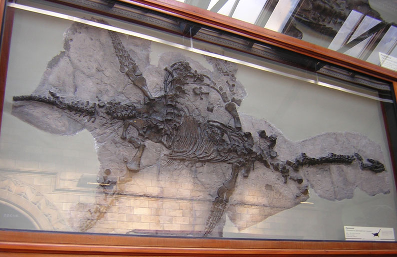 Original specimen on display at the Natural History Museum